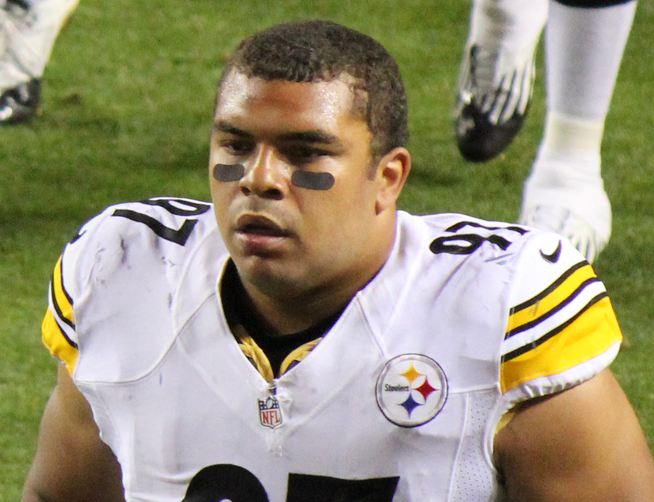 Cameron Heyward, a player on the National Football League.